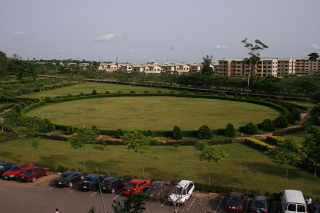 Covenant University Campus View